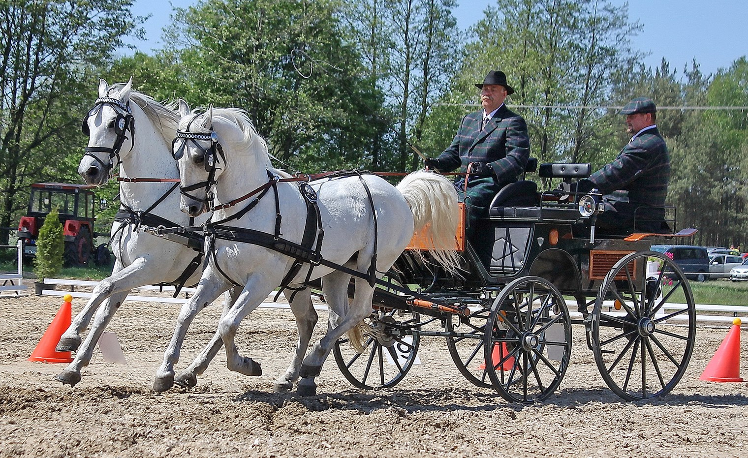 Combined driving (Kwieki 2012)